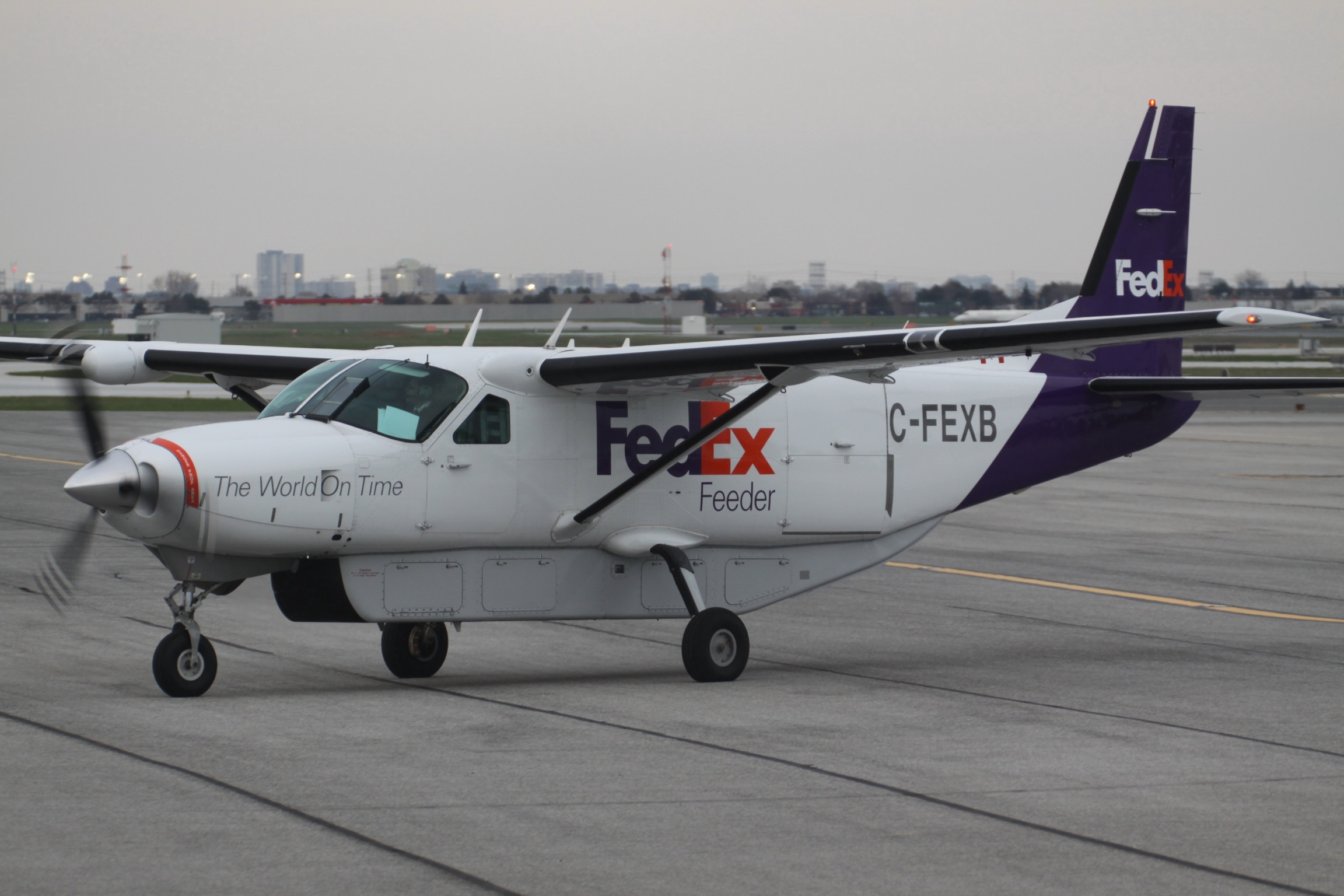 At Toronto Pearson International